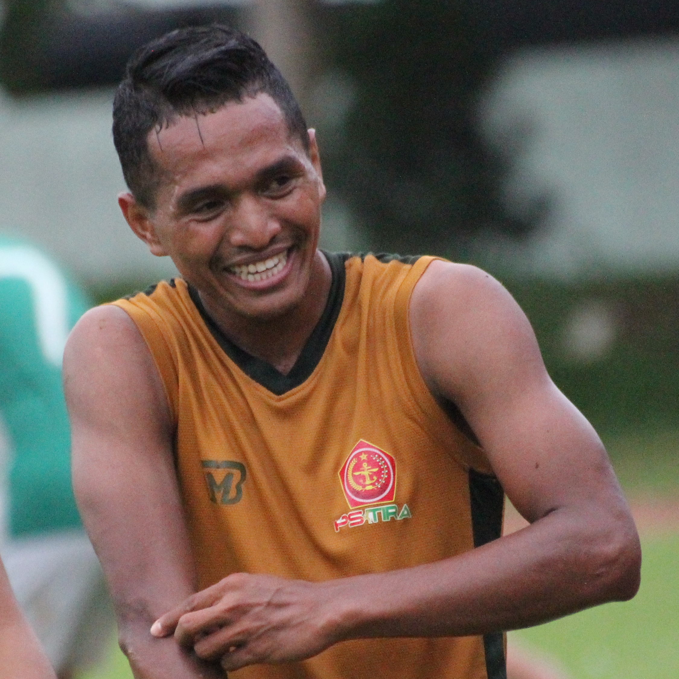 PS Tira player, Abduh Lestaluhu